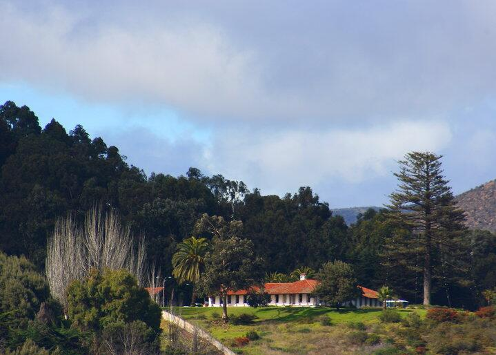 La Serena, CHile